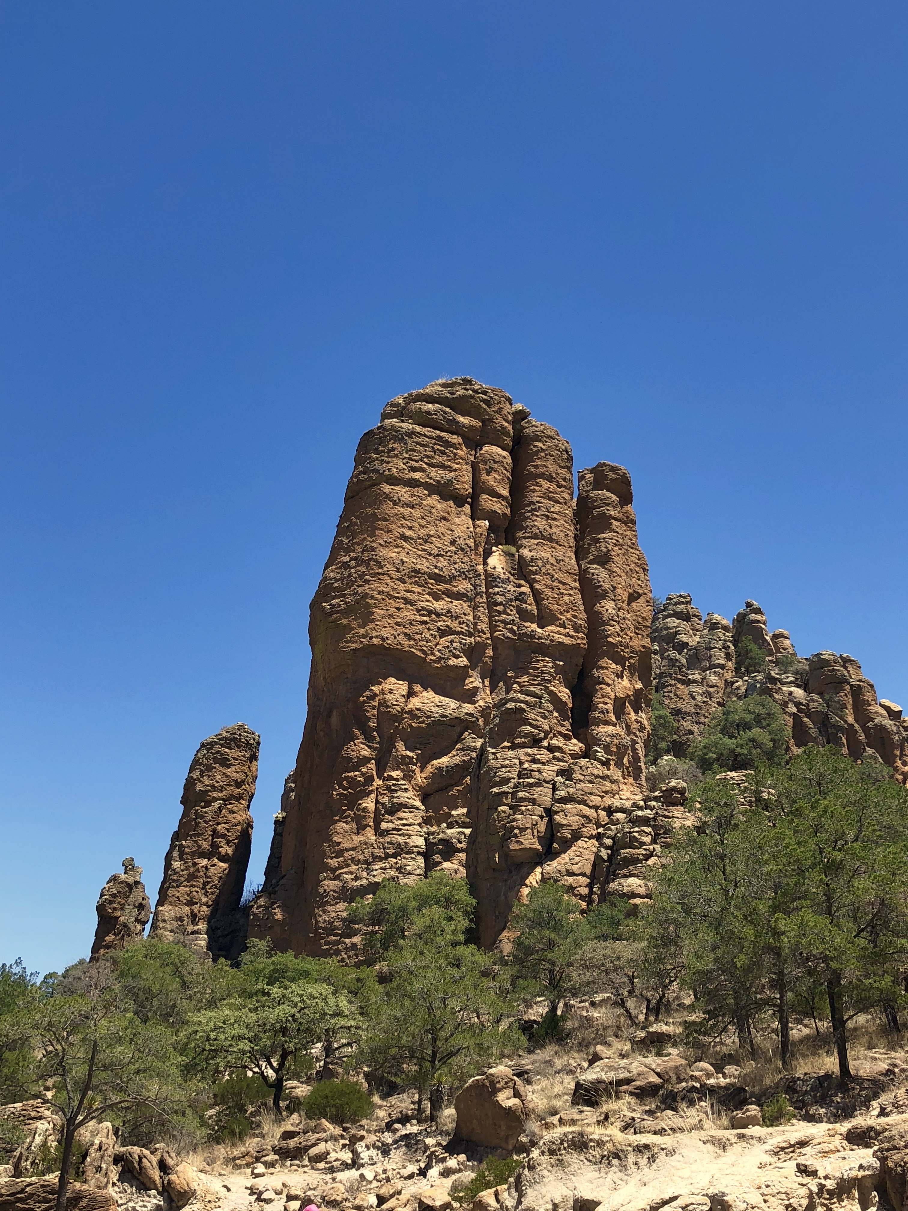 Sierra de Organos National Park